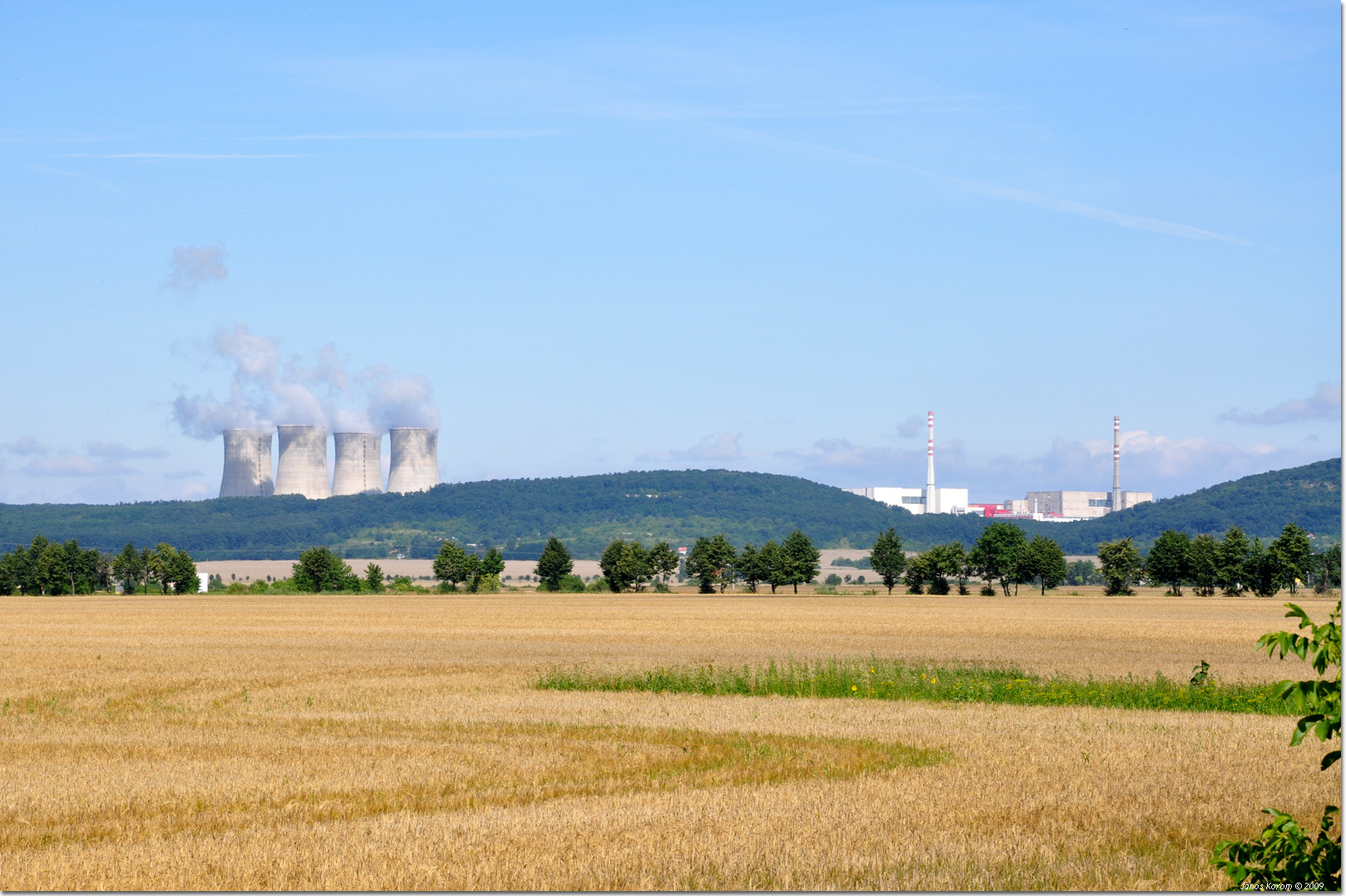 Mochovce NPP